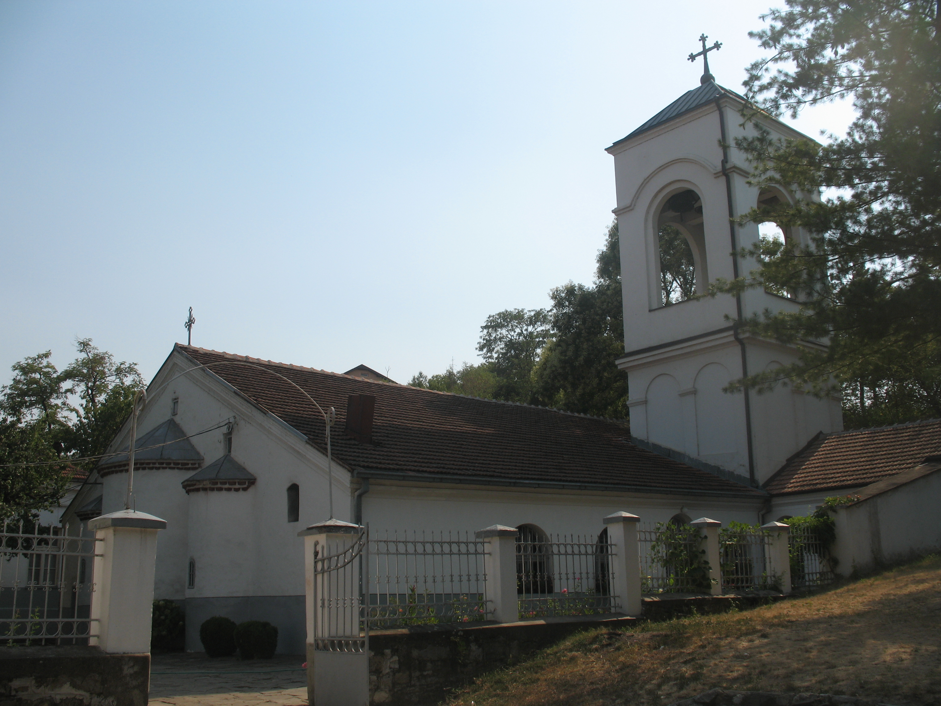 Church of saint Procopius in Prokuplje